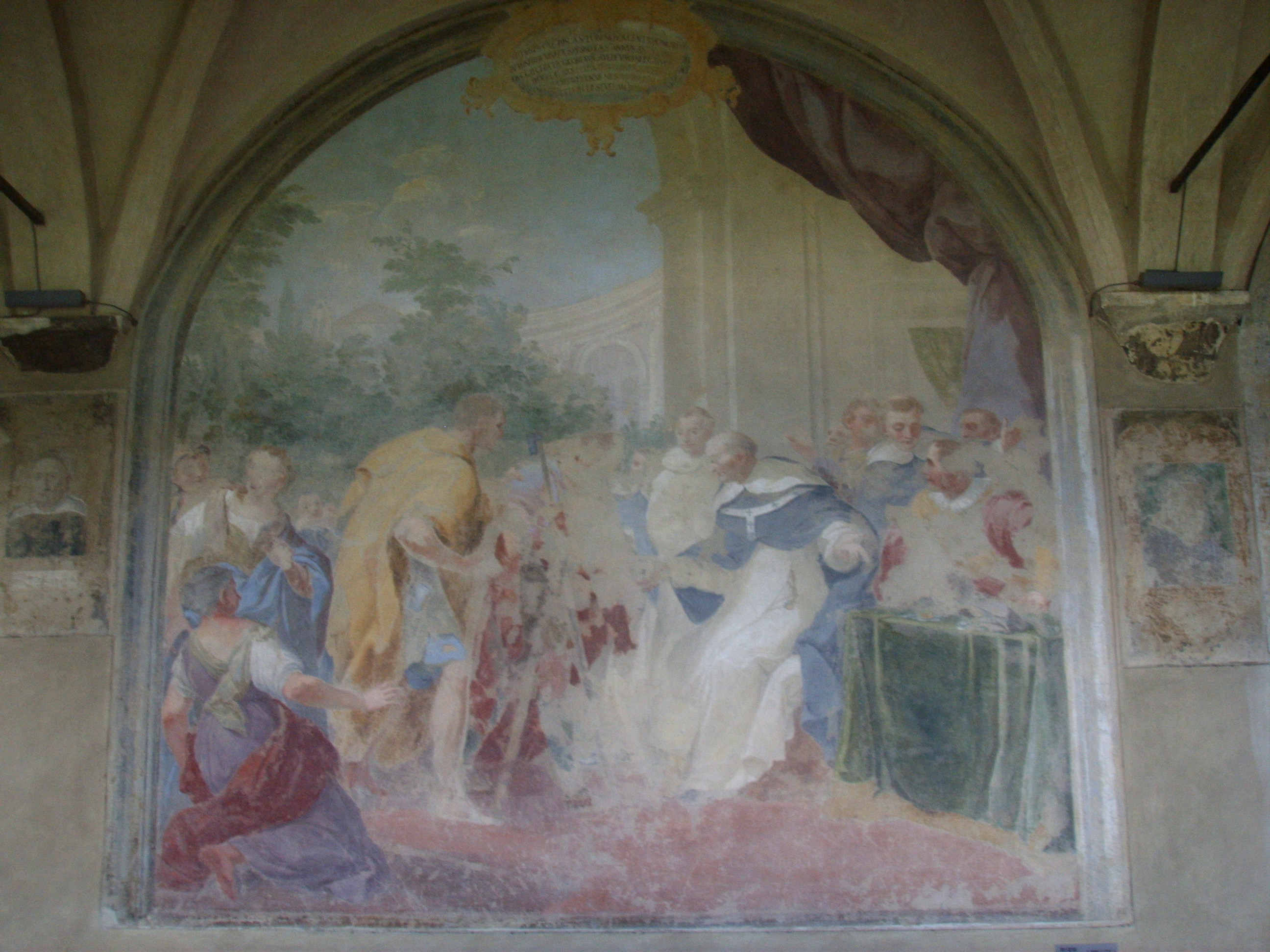 Chiostro Grande in Santa Maria Novella church fresco in Florence, Italy